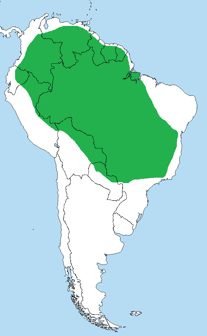 Green Anaconda (Eunectes murinus) distribution map, with the addition of national borders